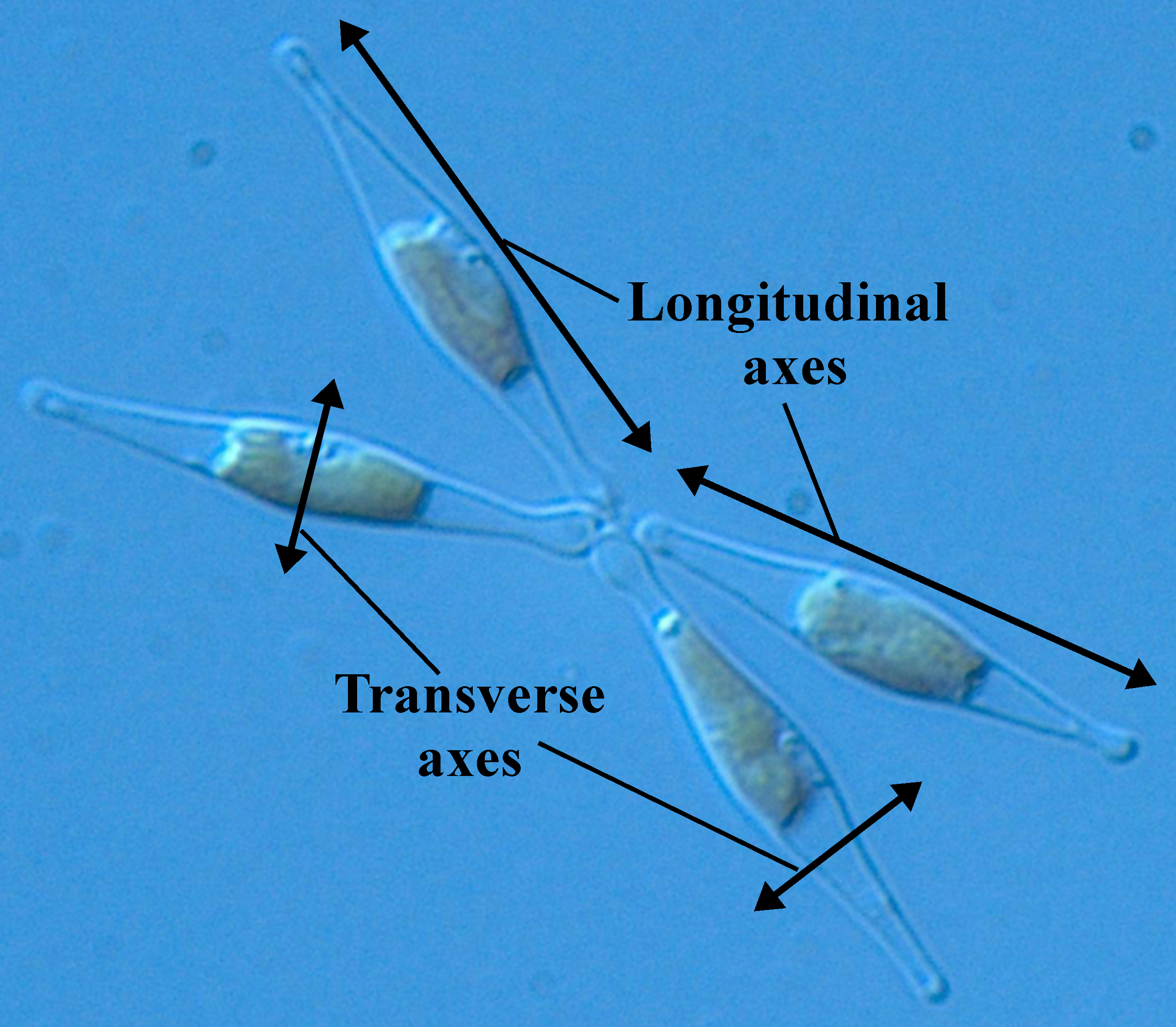 My modification of image Phaeodactylum_tricornutum.png contributed by user:Ayrcop, showing axes of symmetry.